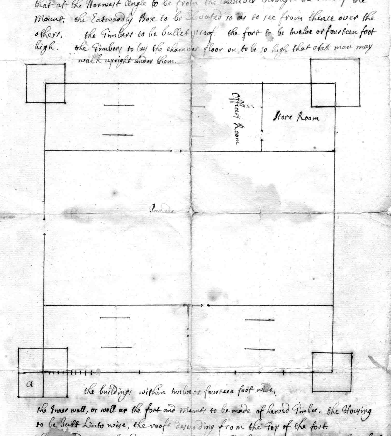 Letter containing a plan for Fort Dummer, in the southeastern corner of what is now Vermont.